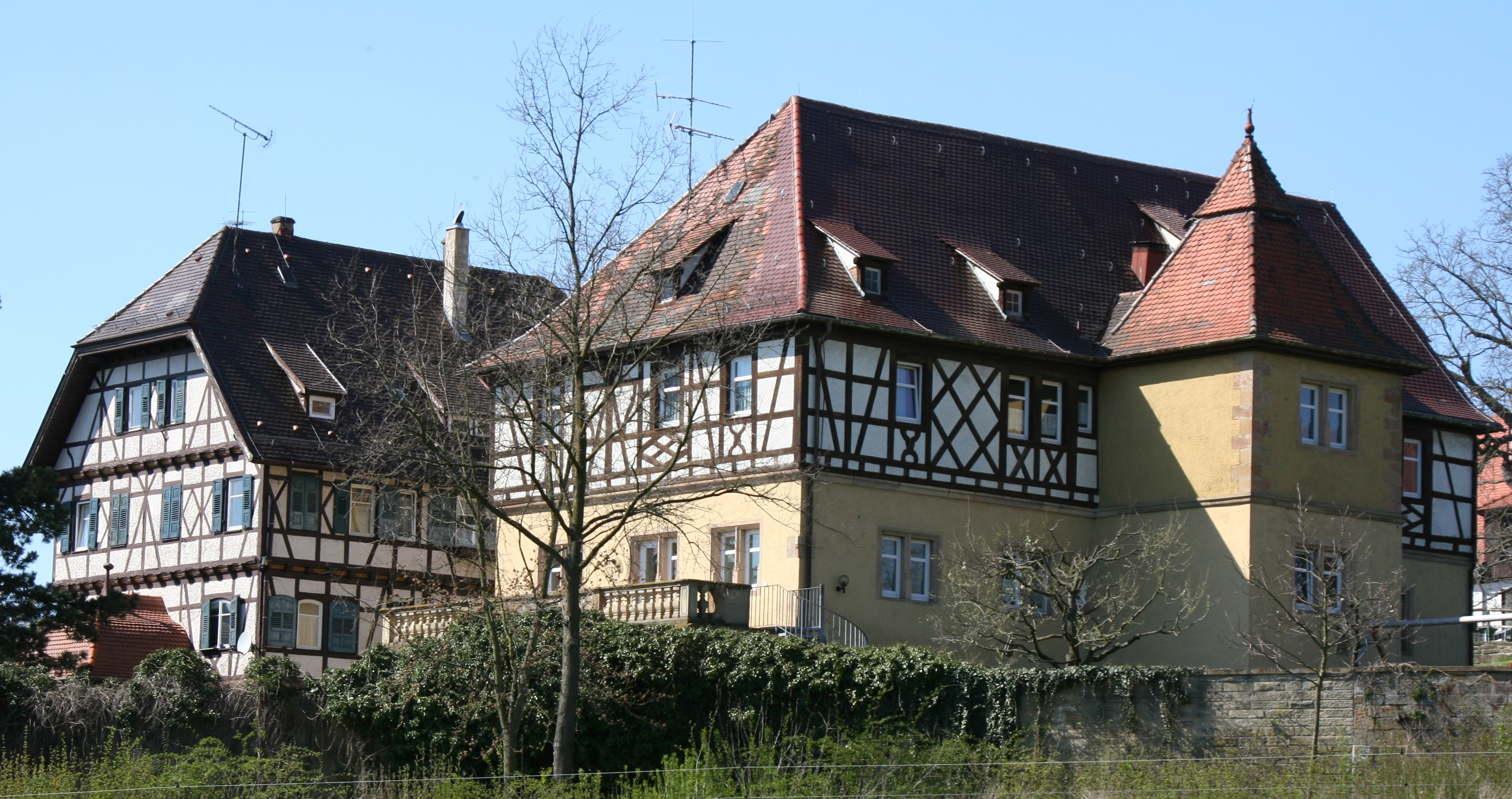 The Weißenhof in Weinsberg. Former small castle form the South-East